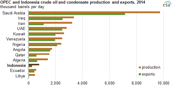 OPEC oil exports and production in 2014, when Indonesia was preparing to rejoin the organization